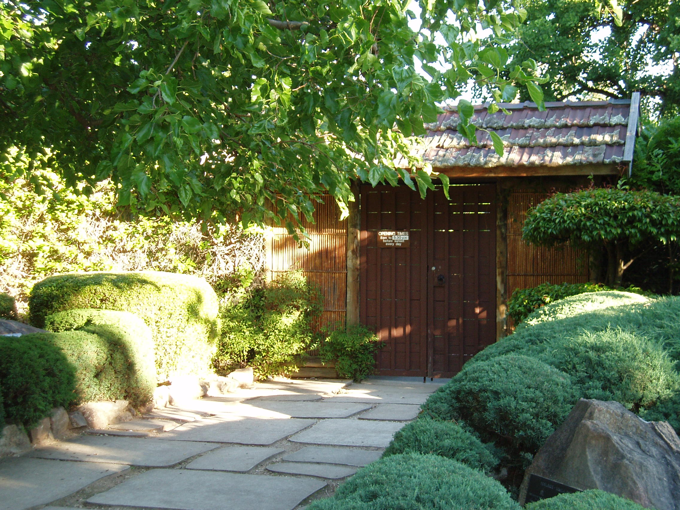 Entrance to Himeji Gardens, Adelaide. Original photography by User:Donama, 2006.